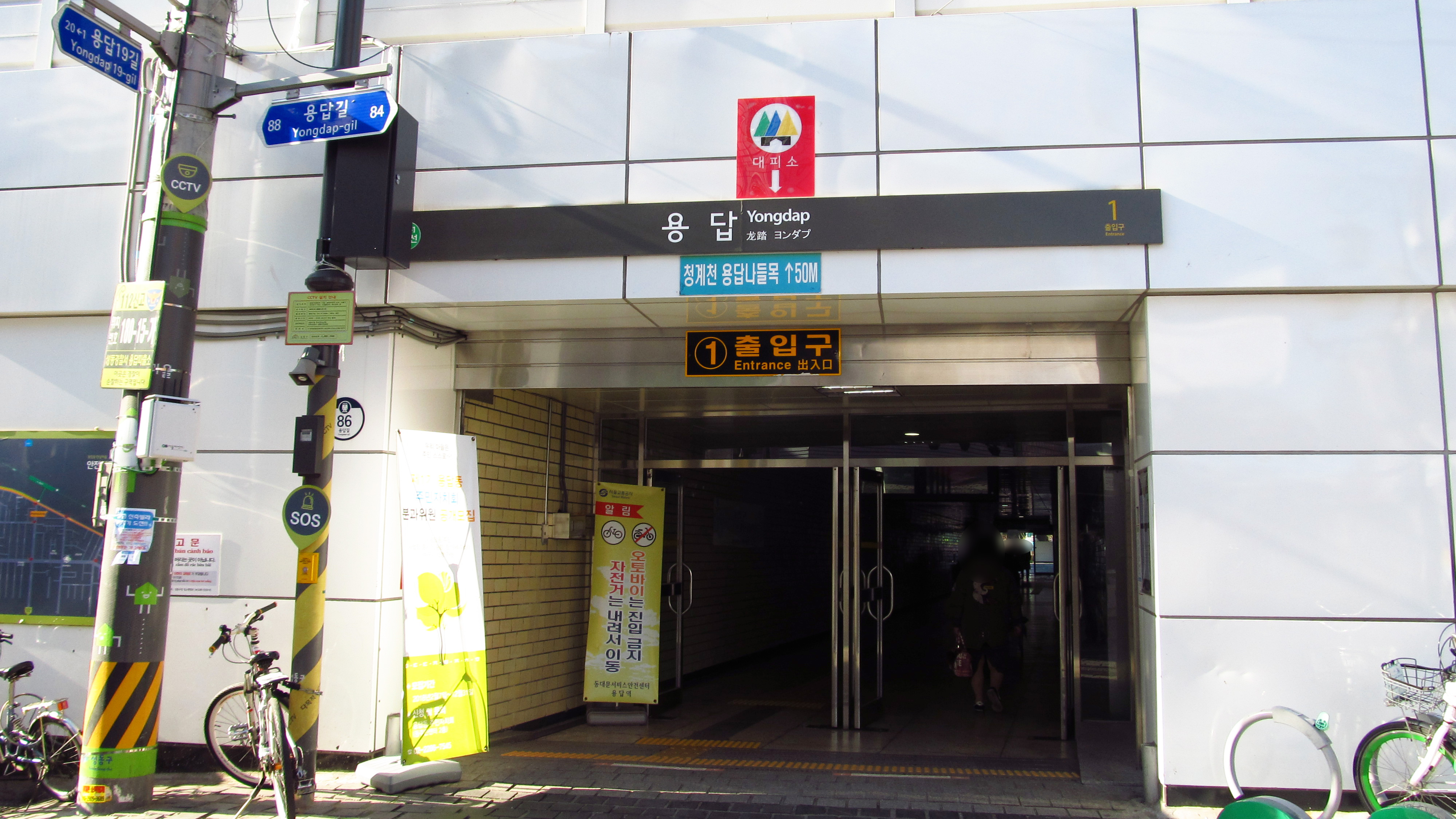 The no.1 entrance to Yongdap Station on the Seoul Metro Line 2 in Seongdong-gu, Seoul, Republic of Korea(South Korea)